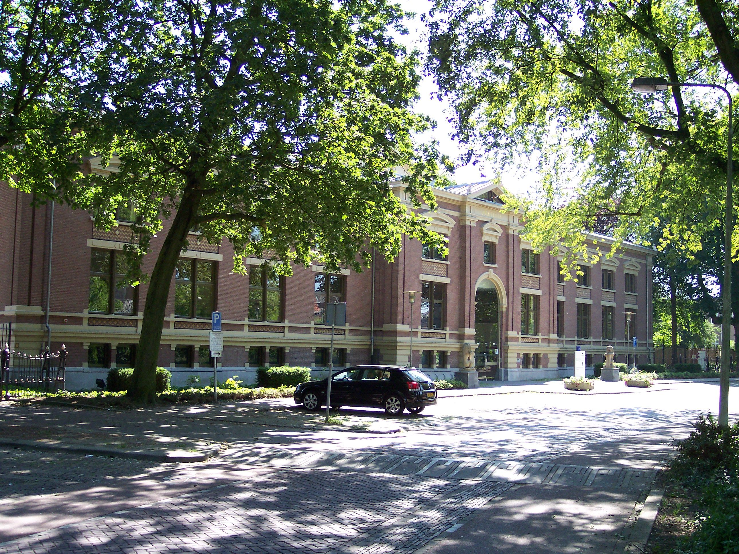 Courthouse, Zutphen, Netherlands